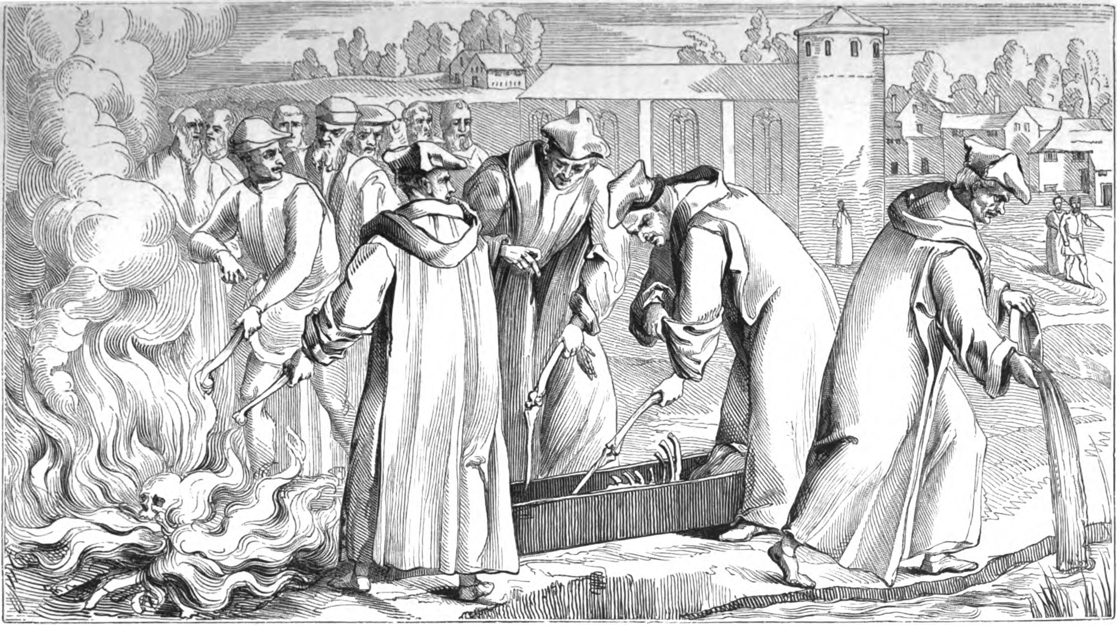 Exhumation of John Wycliffe; from the book The Acts and Monuments of John Foxe, vol. 3, 1837 edition